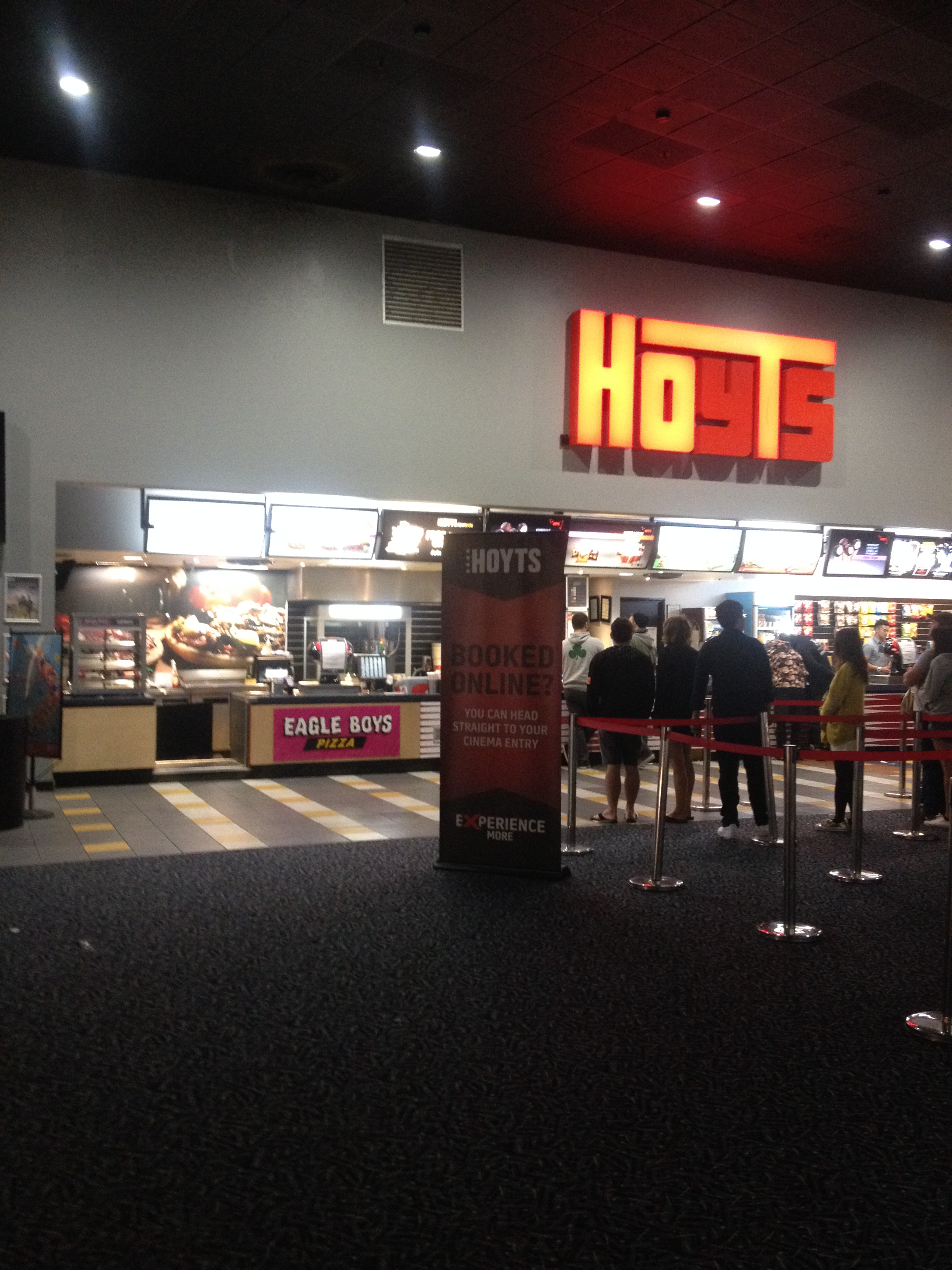 Picture of the Eagle Boys counter at Hoyts Canberra, May 2016